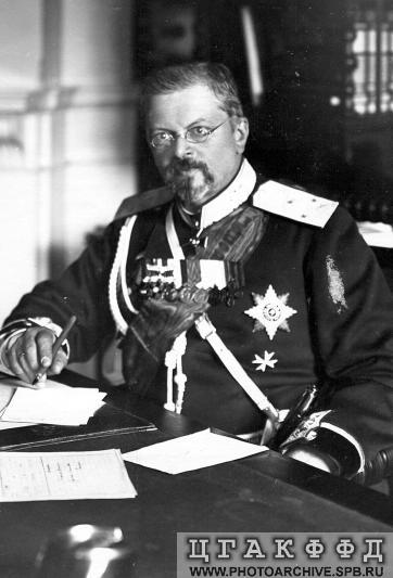 Alexander Rediger (1853-1920), Russian war minister in 1905-1909.